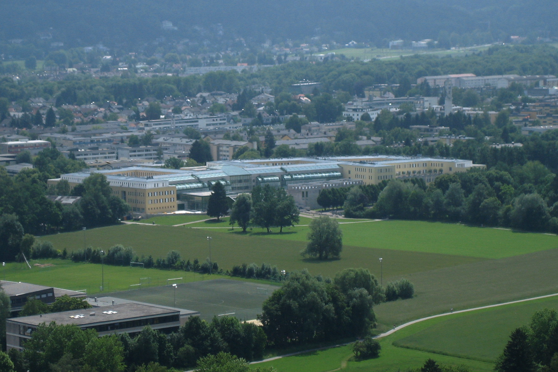 Building of the faculty of natural science - University of Salzburg